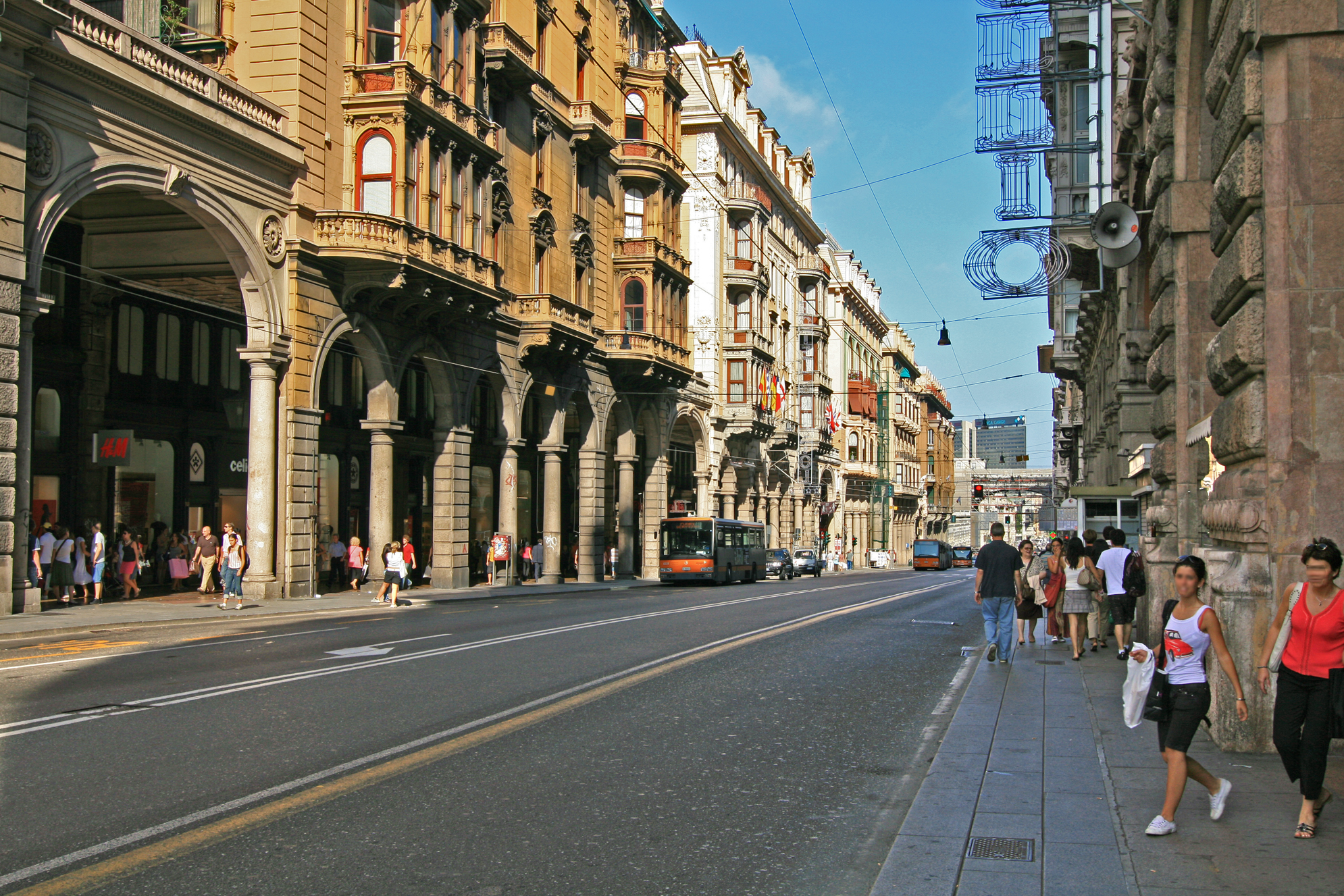 Via XX Settembre, Genova. Looking east from Piazza de Ferrari.